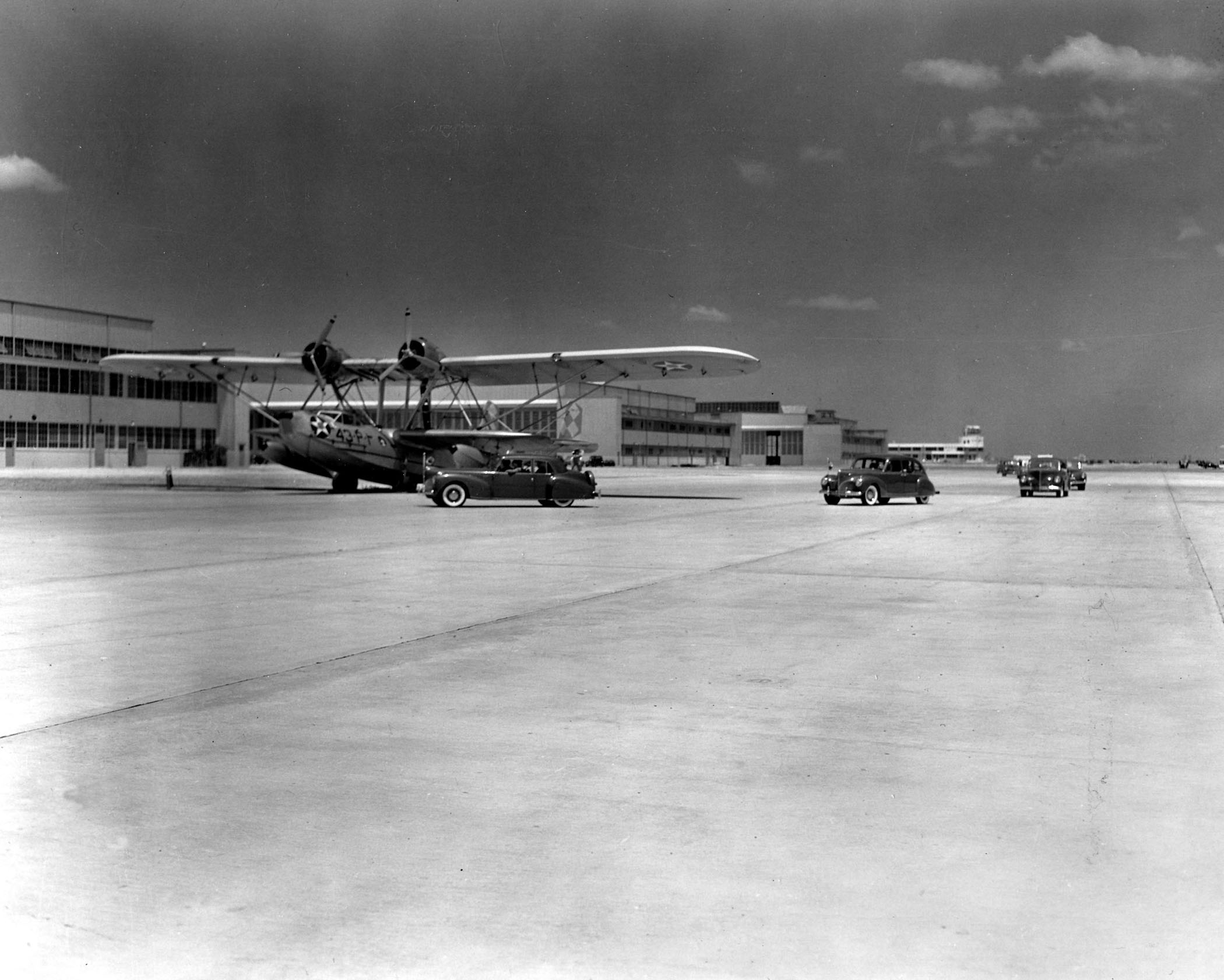 A Consolidated P2Y-3 (43-P-1) of patrol squadron VP-43 at Naval Air Station Jacksonville, Florida (USA) in 1941, parked at the station's seaplane landing area. This aircraft was first used as a training aircraft from January through July 1941. The aircraft was no longer used after PBY aircraft began showing up at the station.